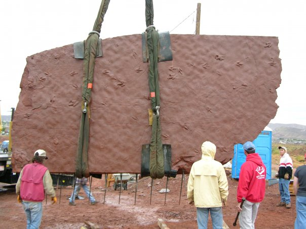 26.5 ton rock block displaying Grallator footprints